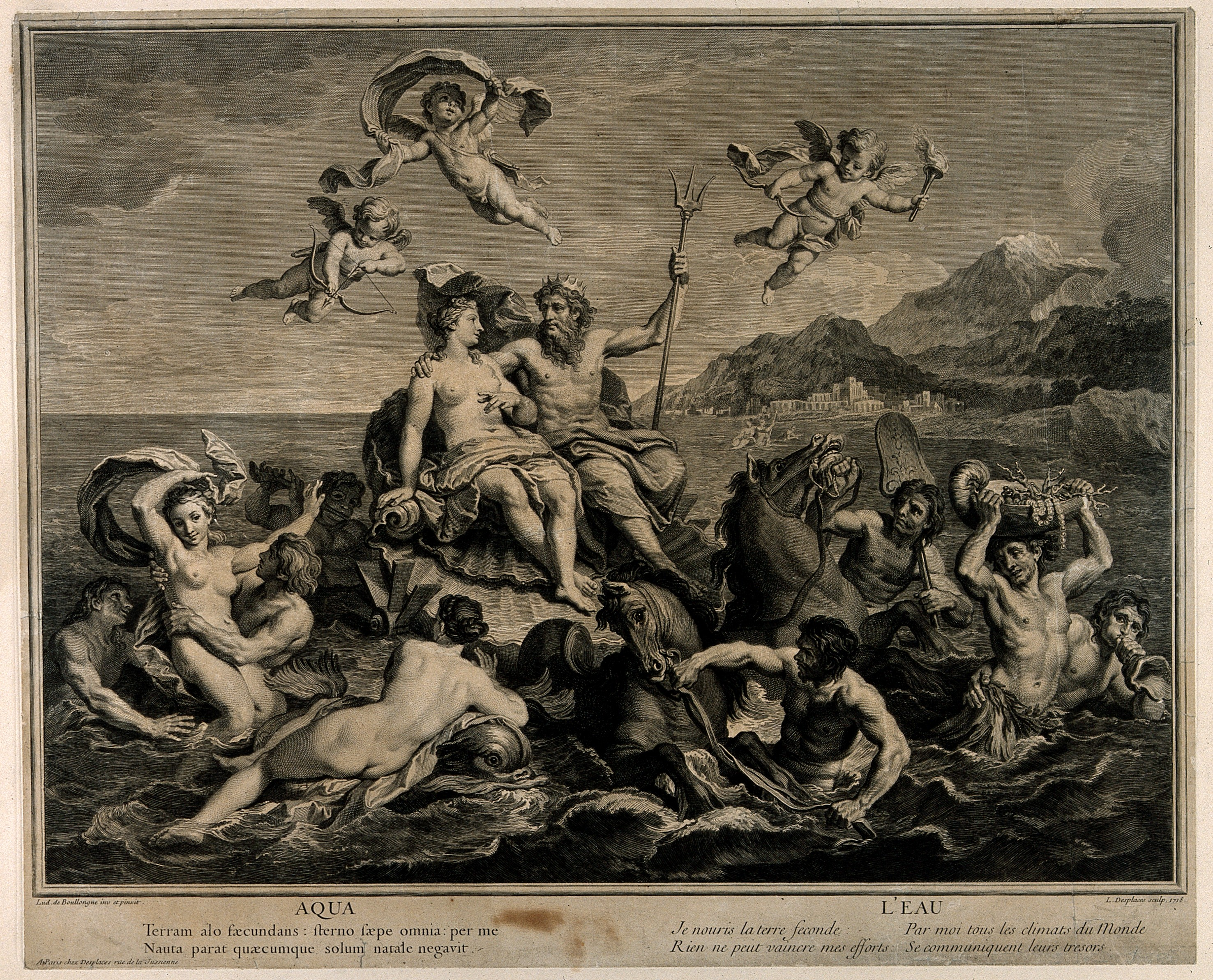 Venus and Neptune sit on the scallop shell chariot amidst the waves, surrounded by nymphs and mermen: symbolising the element water. Engraving by L. Desplaces, 1718, after Louis de Boullongne. Iconographic Collections Keywords: Louis Desplaces; Louis de Boullongne